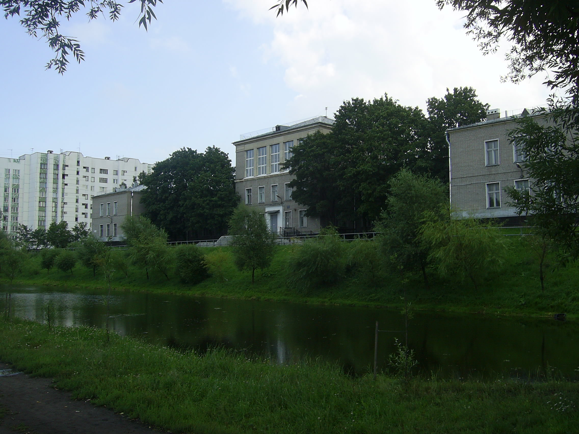 Ulyanka S-Petersburg